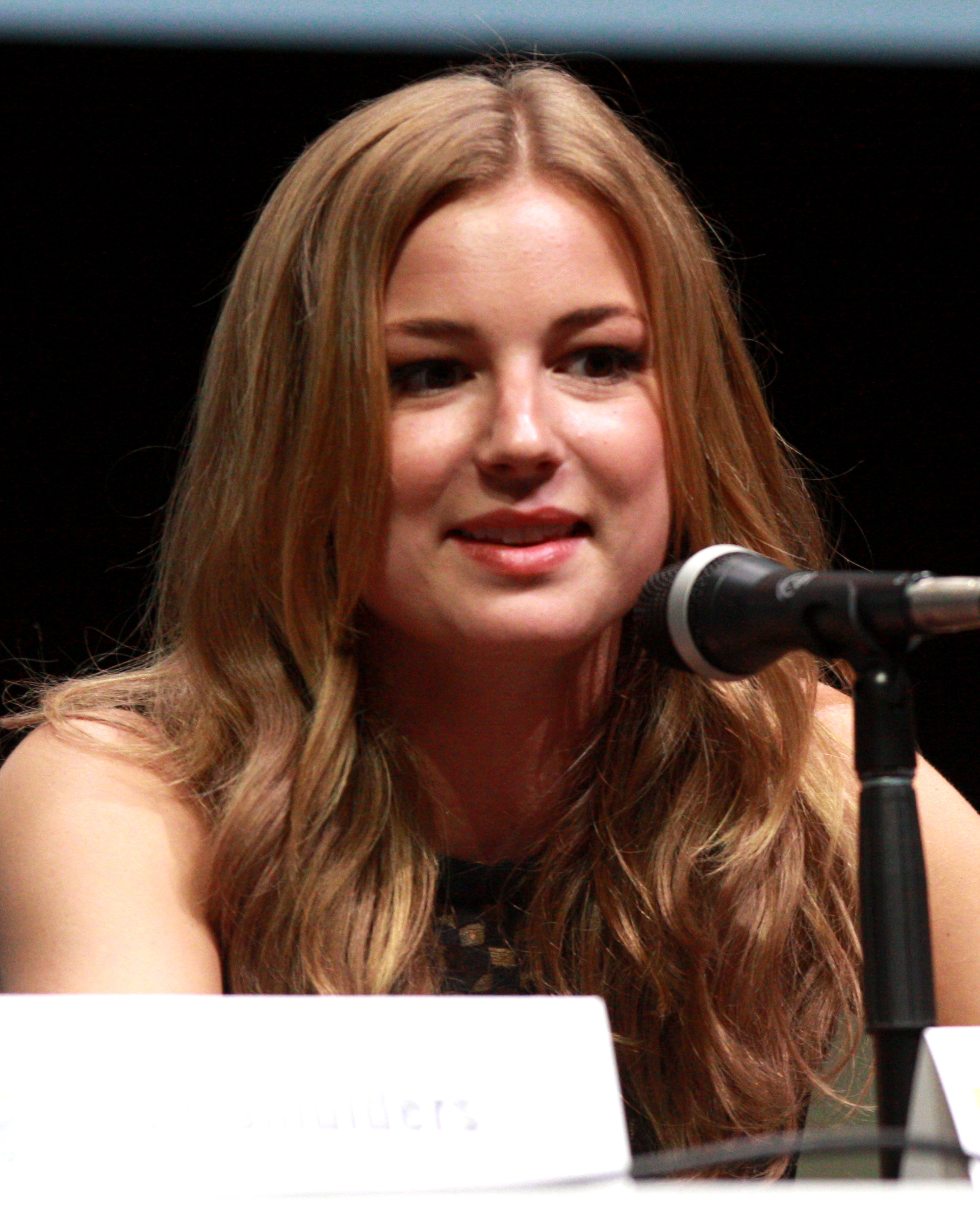 Emily VanCamp at the 2013 San Diego Comic Con International in San Diego, California.